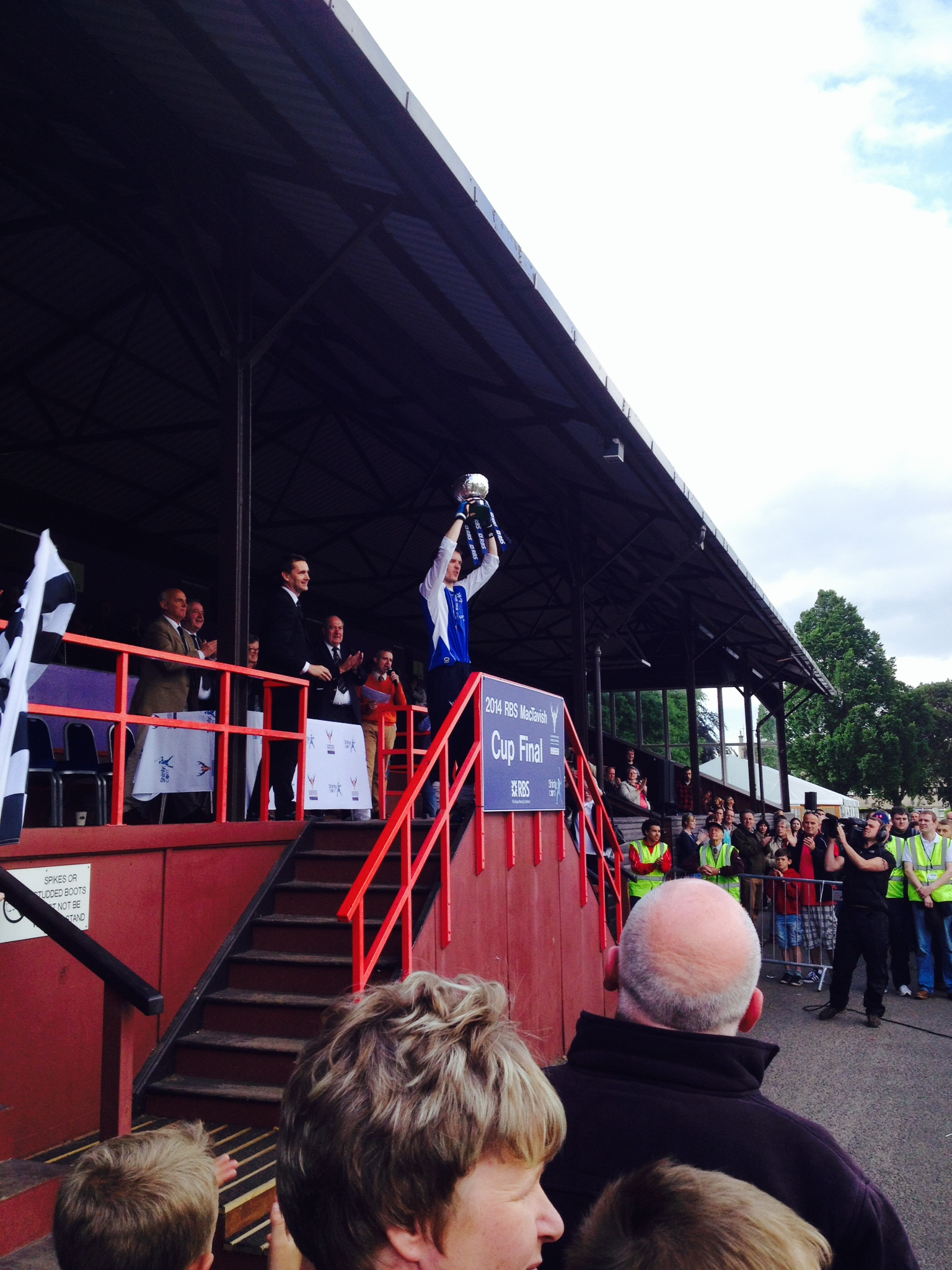 The Bught Park Stadium Inverness - Photo Taken at MacTavish Cup Final 2014